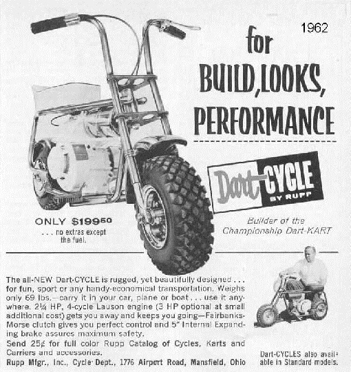 Original advertisement for the 1962 Rupp Dart cycle.